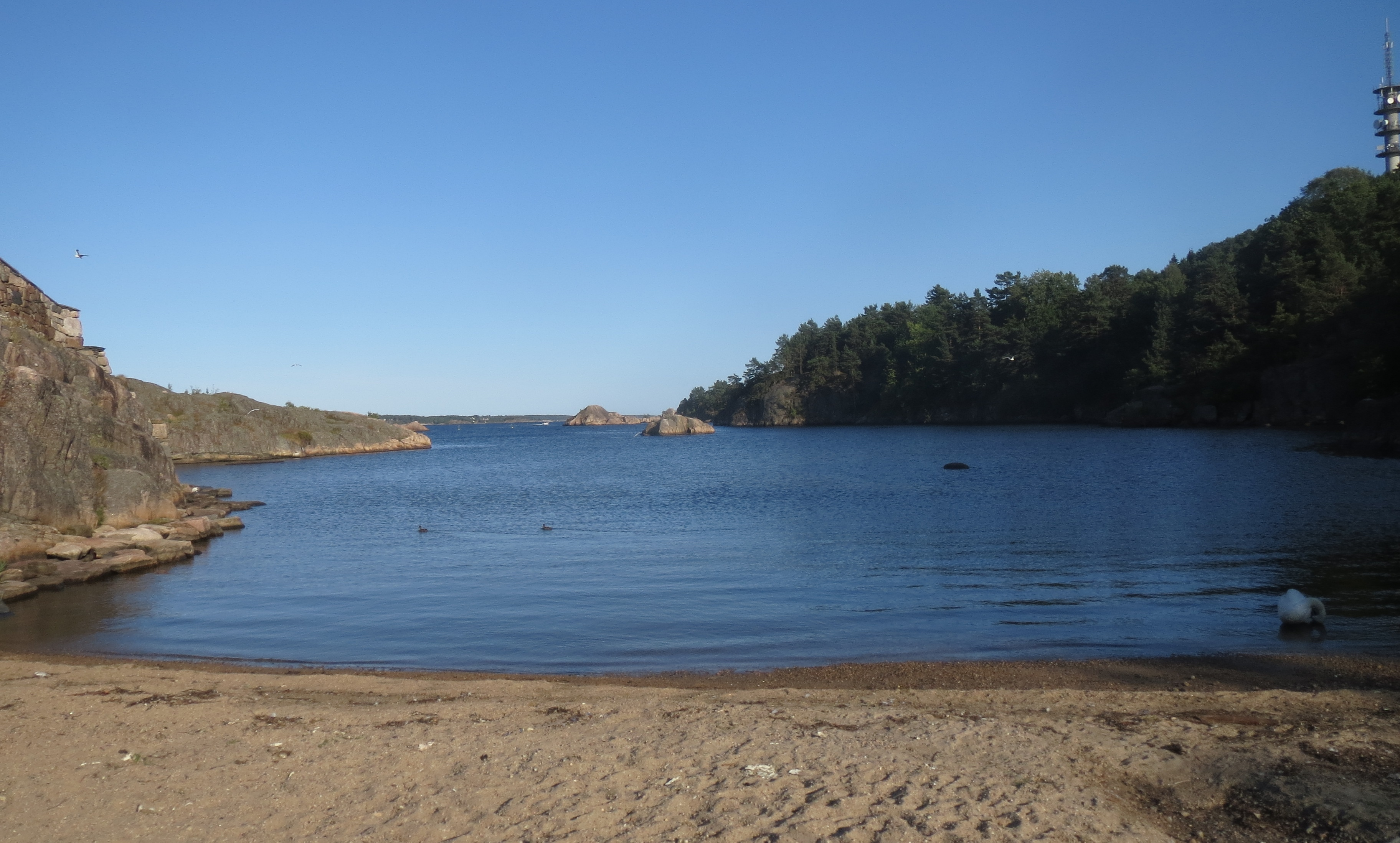 The Beach at Bendiksbukta (Kristiansand, Norway)